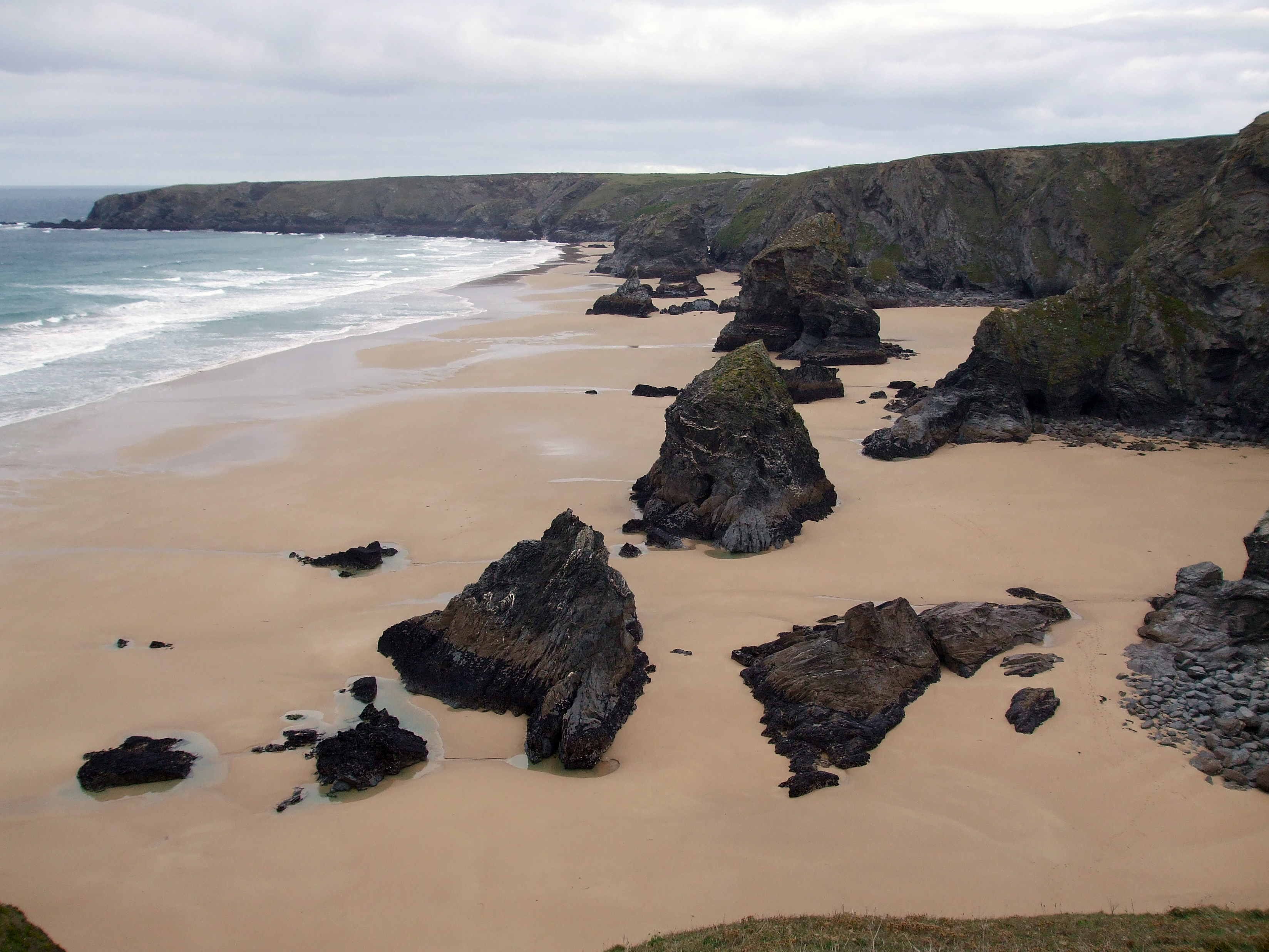 N.T. place nr Padstow